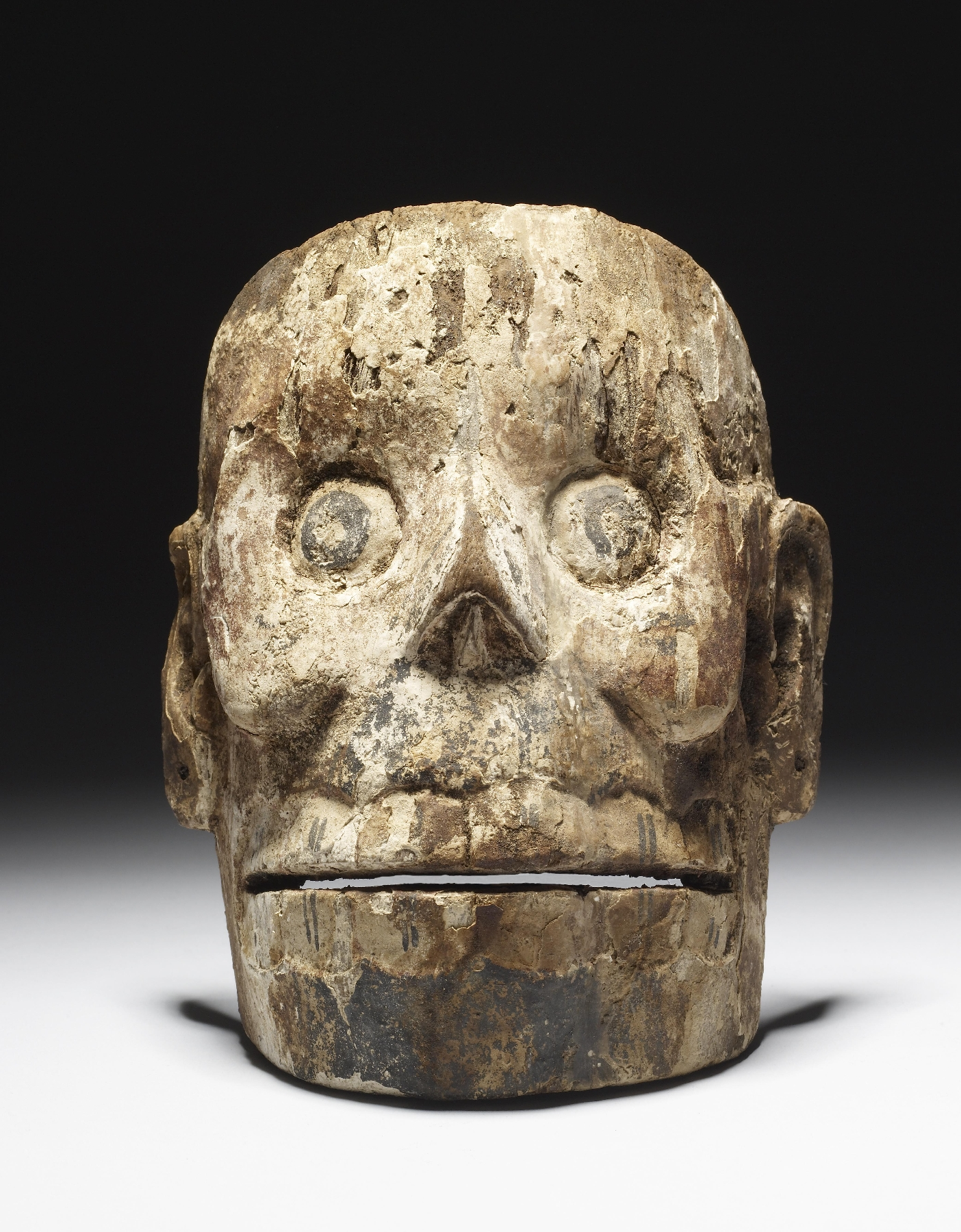 Throughout Mesoamerica, the wearing of masks was central to the performance of religious rituals and reenactments of myths and history. The face is the center of identity, and by changing one's face, a person can transcend the bounds of self, social expectations, and even earthly limitations. In this transformed state, the human becomes the god, supernatural being or mythic hero portrayed. Masks of skeletal heads, whether human or animal, are relatively common, for death played a central role in Mexica religion. Death was one of the twenty daysigns of the Mexican calendar, indicating its essential place in the natural cycle of the cosmos. Death also was directly connected to the concept of regeneration and resurrection, which was a basic principle in Aztec religious philosophy. A key Mexica myth recounts the journey of Ehecatl, a wind god who was an aspect of Quetzalcóatl ("Feathered Serpent"), a powerful Mesoamerican deity. Ehecatl travels to Mictlán, the land of the dead, where he retrieves the bones of long-dead ancestors. He grinds their bones and mixes the powder with his blood, offered in sacrifice. With this potent mixture, the god formed the new race of humans who, according to Mexica cosmology, inhabit the present fifth age of Creation. Thus, death and rebirth are intimately connected in Aztec thought and religious practice. The mask represents the concept of life generated from death with visages animated by lively eyes and painted skin. The mask was probably worn during rituals, covering the performer's face or attached to an elaborate, full-head mask, and transforms the person into a new being that symbolizes the pan-Mesoamerican belief in life springing from death as a natural, and inevitable, process of the mystical universe.